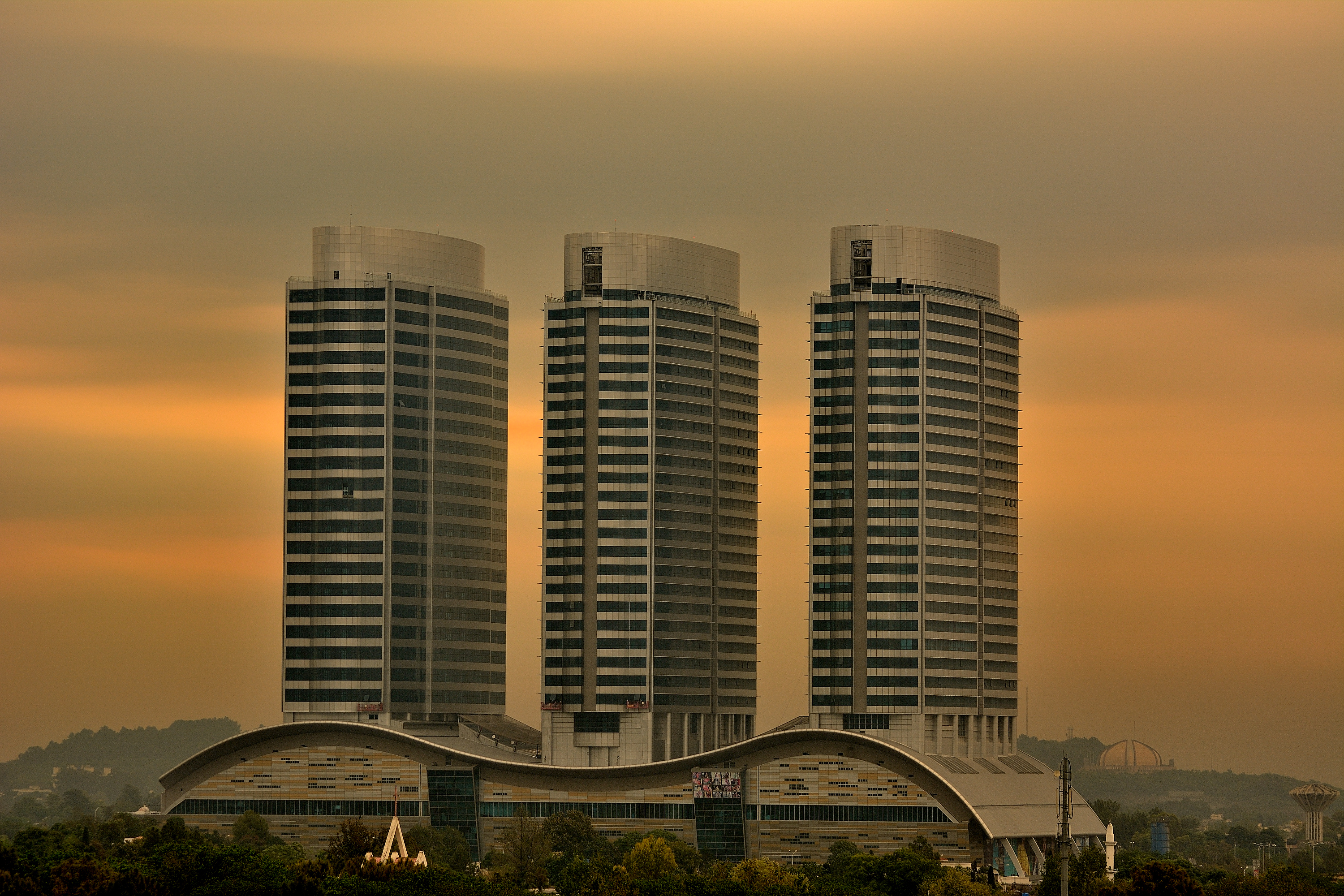 Shot during thunder storm